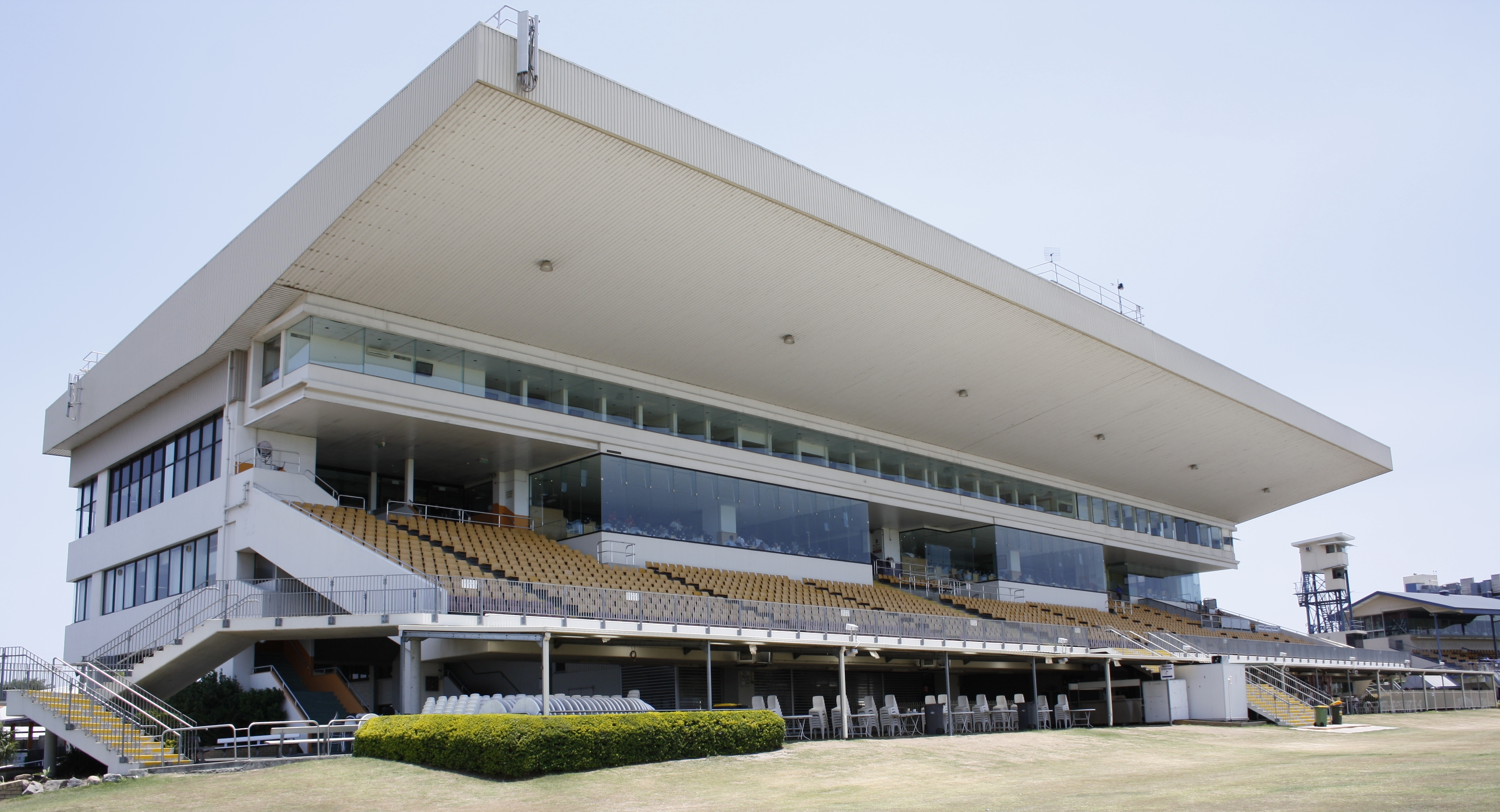 The Main grandstand at Doomben Racecourse, Brisbane, Australia.